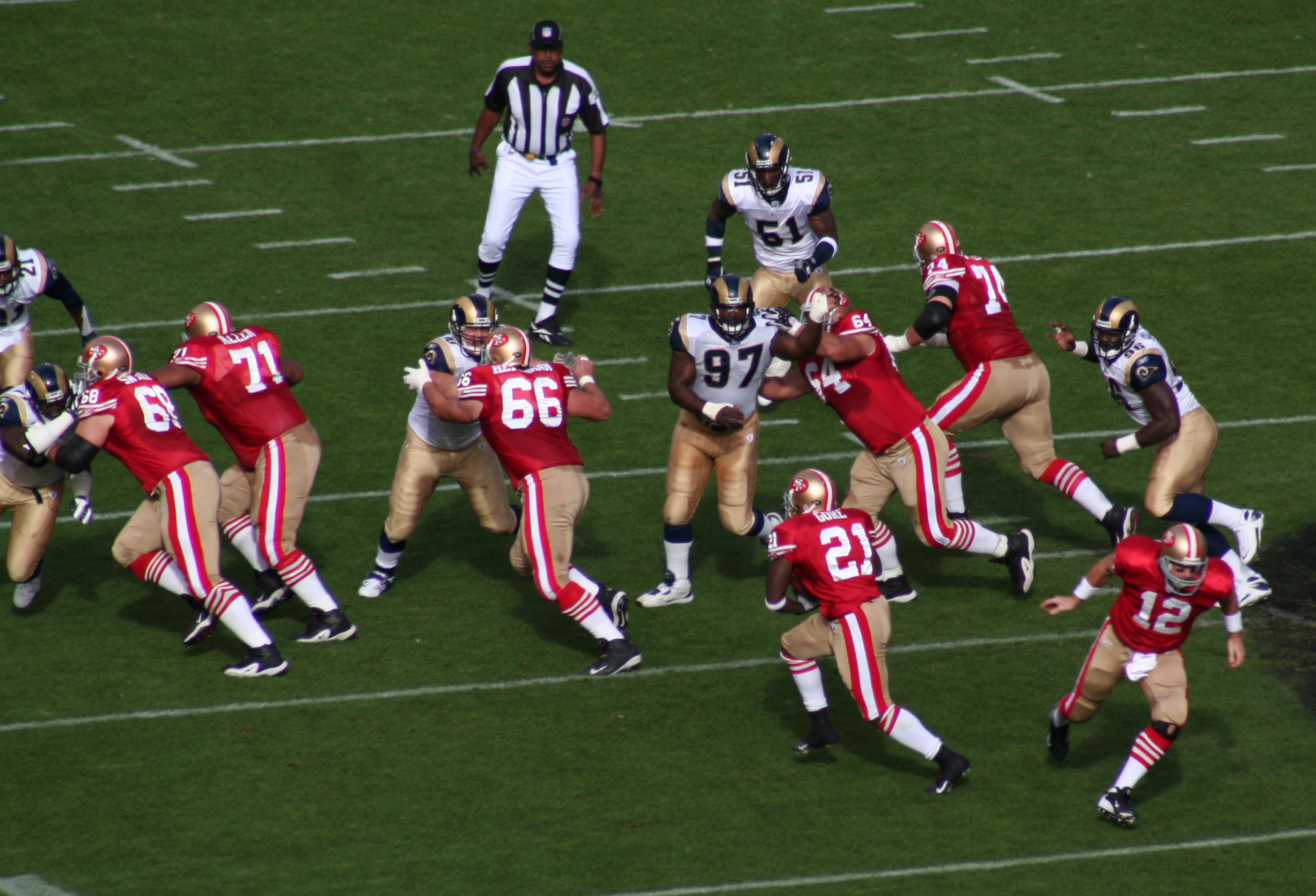 San Francisco 49ers running back Frank Gore takes a handoff from Trent Dilfer and rushes up the middle in the Nov. 18, 2007 game against the St. Louis Rams.